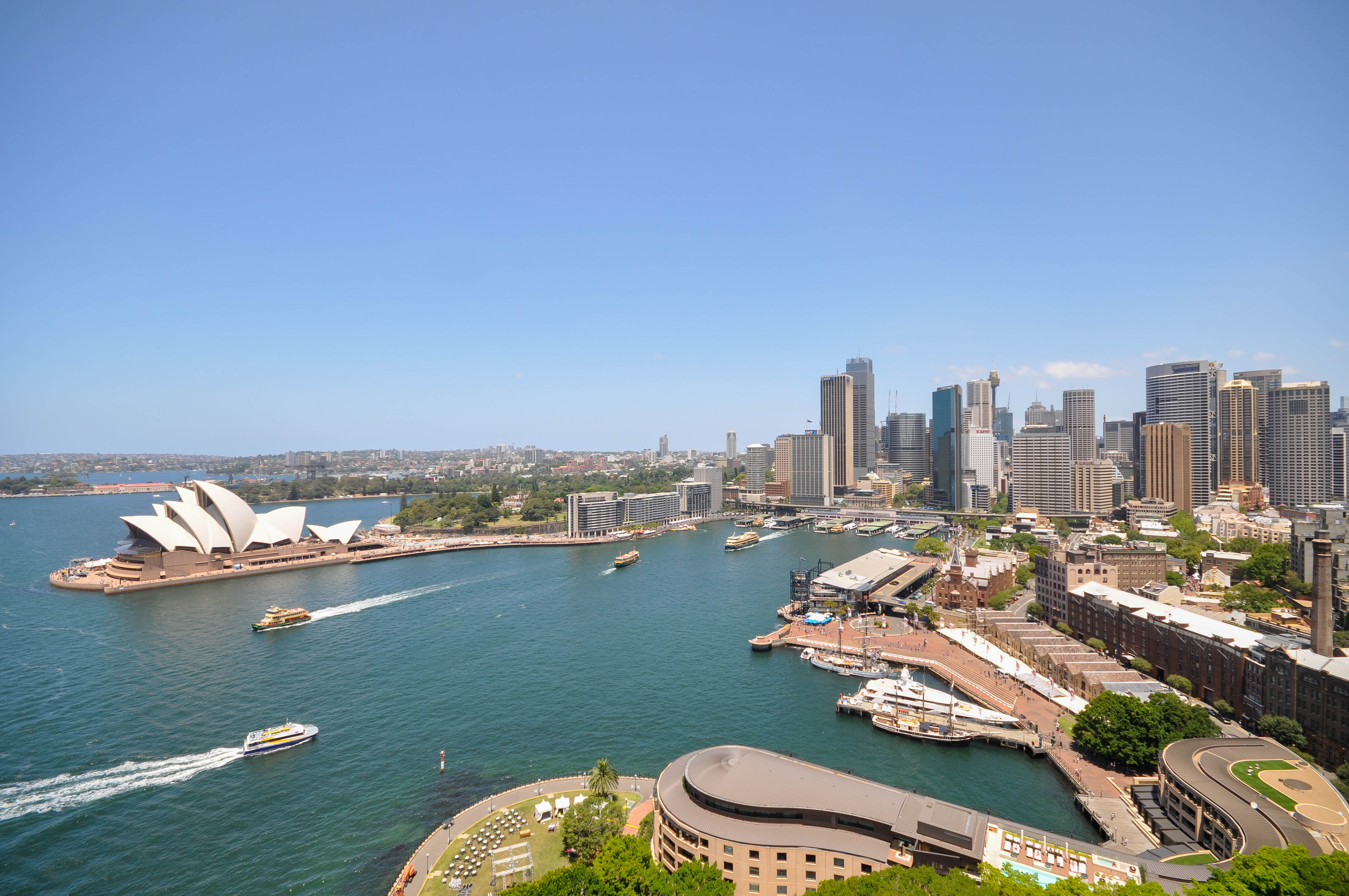 Sydney is the state capital of New South Wales and the most populous city in Australia and Oceania. Located on Australia's east coast, the metropolis surrounds one of the world's largest natural harbours, and sprawls towards the Blue Mountains to the west. Residents are together known as "Sydneysiders" and constitute the most multicultural city in Australia and one of the most multicultural cities in the world. The area around Sydney has been inhabited by indigenous Australians for tens of millennia. The first British settlers arrived in 1788 with Captain Arthur Phillip and founded Sydney as a penal colony. Successive colonial Governors assisted to transform the settlement into a thriving and independent metropolis. Since convict transportation ended in the mid 1800s the city has become a global cultural and economic centre. The population of Sydney at the time of the 2011 census was 4.39 million. About 1.5 million of this total were born overseas and represent many different countries from around the world. There are more than 250 different languages spoken in Sydney and about one-third of residents speak a language other than English at home. Sydney has an advanced market economy with strengths in finance, manufacturing, and tourism. Its gross regional product was $337 billion in 2013 making it a larger economy than countries such as Denmark, Singapore, and Hong Kong. There is a significant concentration of foreign banks and multinational corporations in Sydney and the city is promoted as Asia Pacific's leading financial hub. In addition to hosting events such as the 2000 Summer Olympics, millions of tourists come to Sydney each year to see the city's landmarks. Its natural features include Sydney Harbour, the Royal National Park, Bondi Beach, and the Royal Botanic Gardens. Man-made attractions such as the Sydney Opera House and the Sydney Harbour Bridge are also well known to international visitors